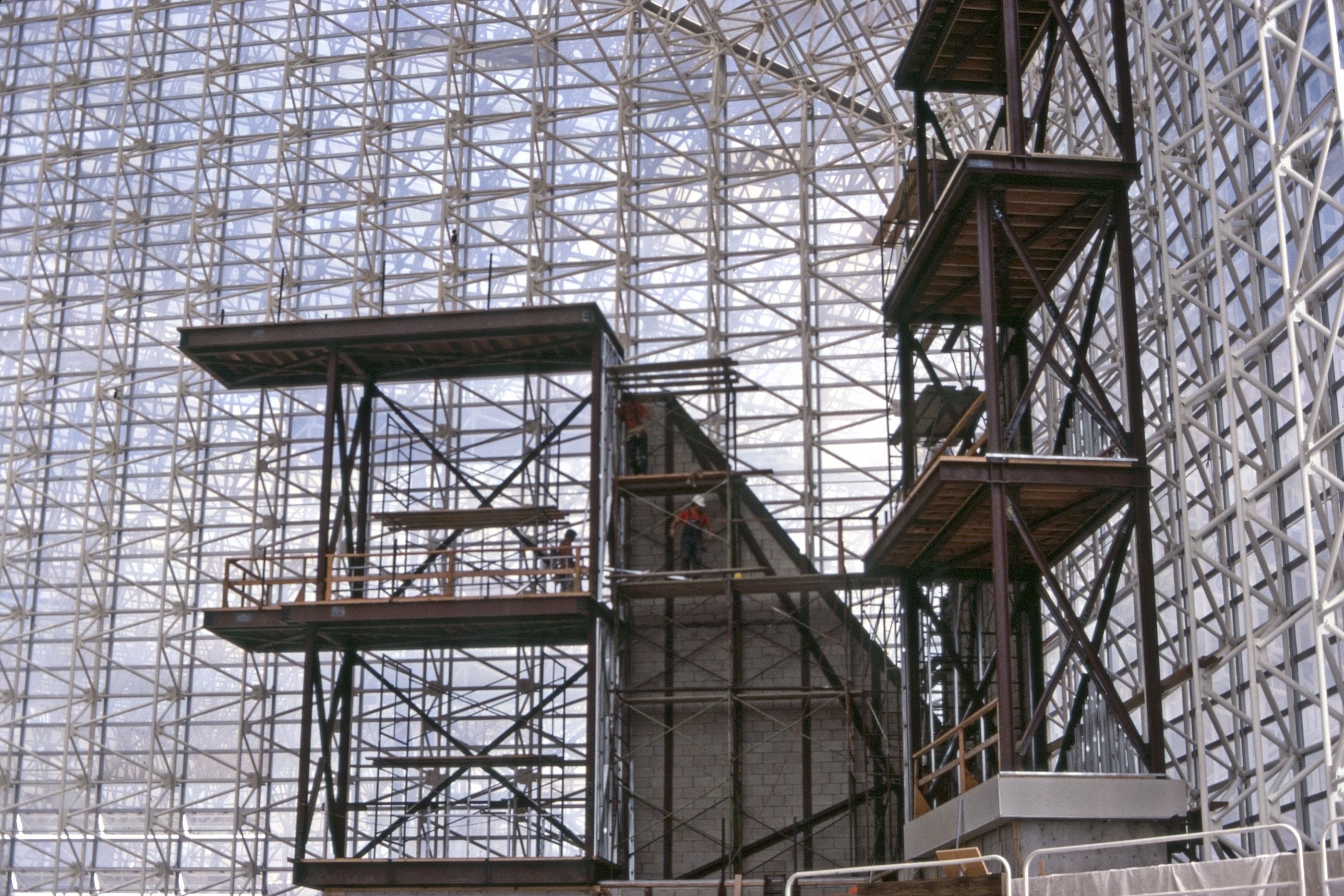 Crystal Cathedral nearing completion-several workers on internal framing. (Scanned from 35mm Kodachrome 25 slide)